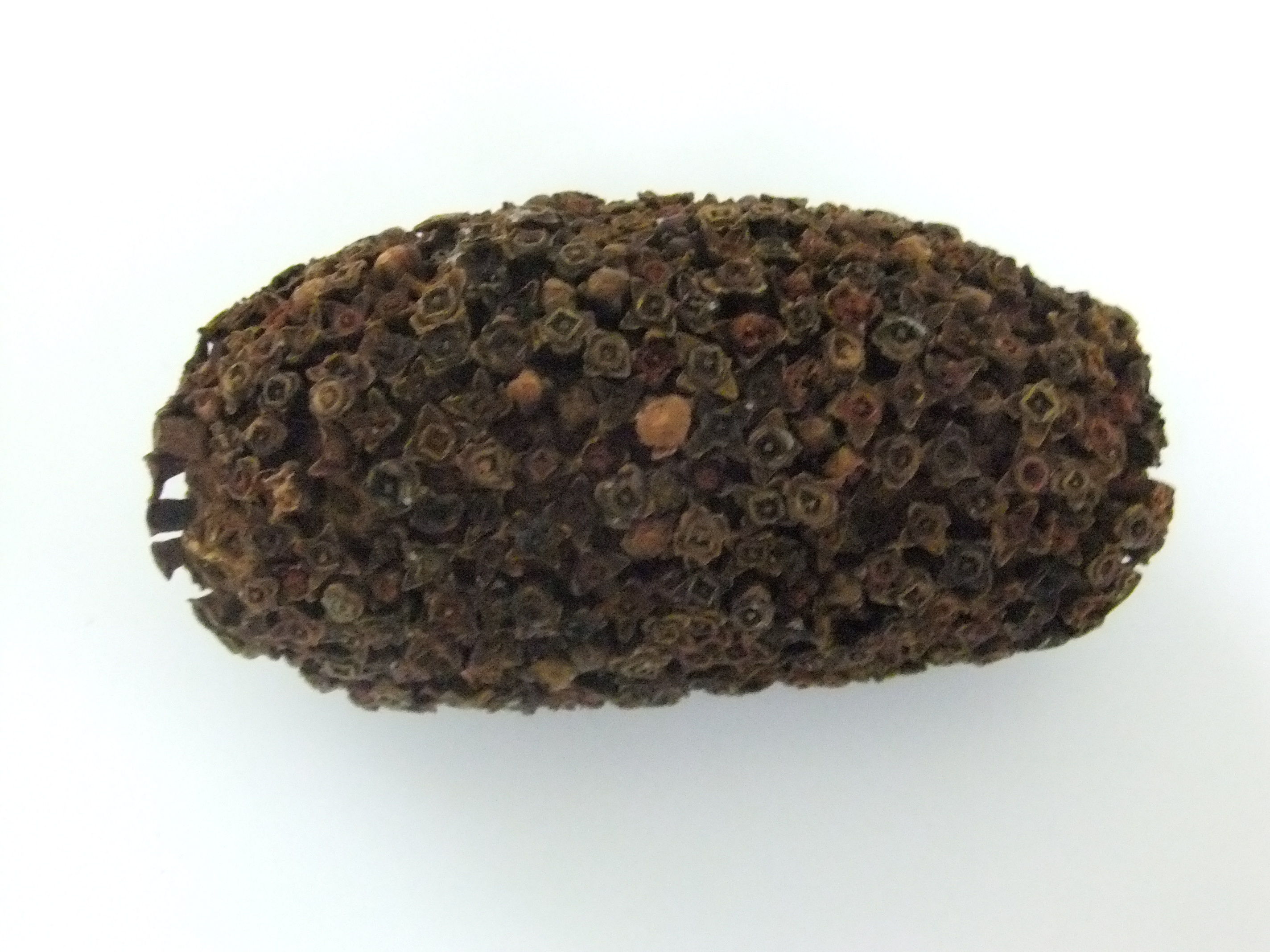 An etrog covered with cloves for use in Havdala